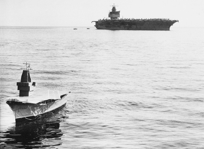 View of the U.S. Navy aircraft carrier USS Enterprise (CVAN-65) when she relieved the USS Franklin D. Roosevelt (CVA-42) in the Mediterranean Sea, in March 1963. Original description: "The "Enterprise" in the foreground is actually an FDR utility boat, converted to the occasion to give the people on the Big E a proper perspective on things."